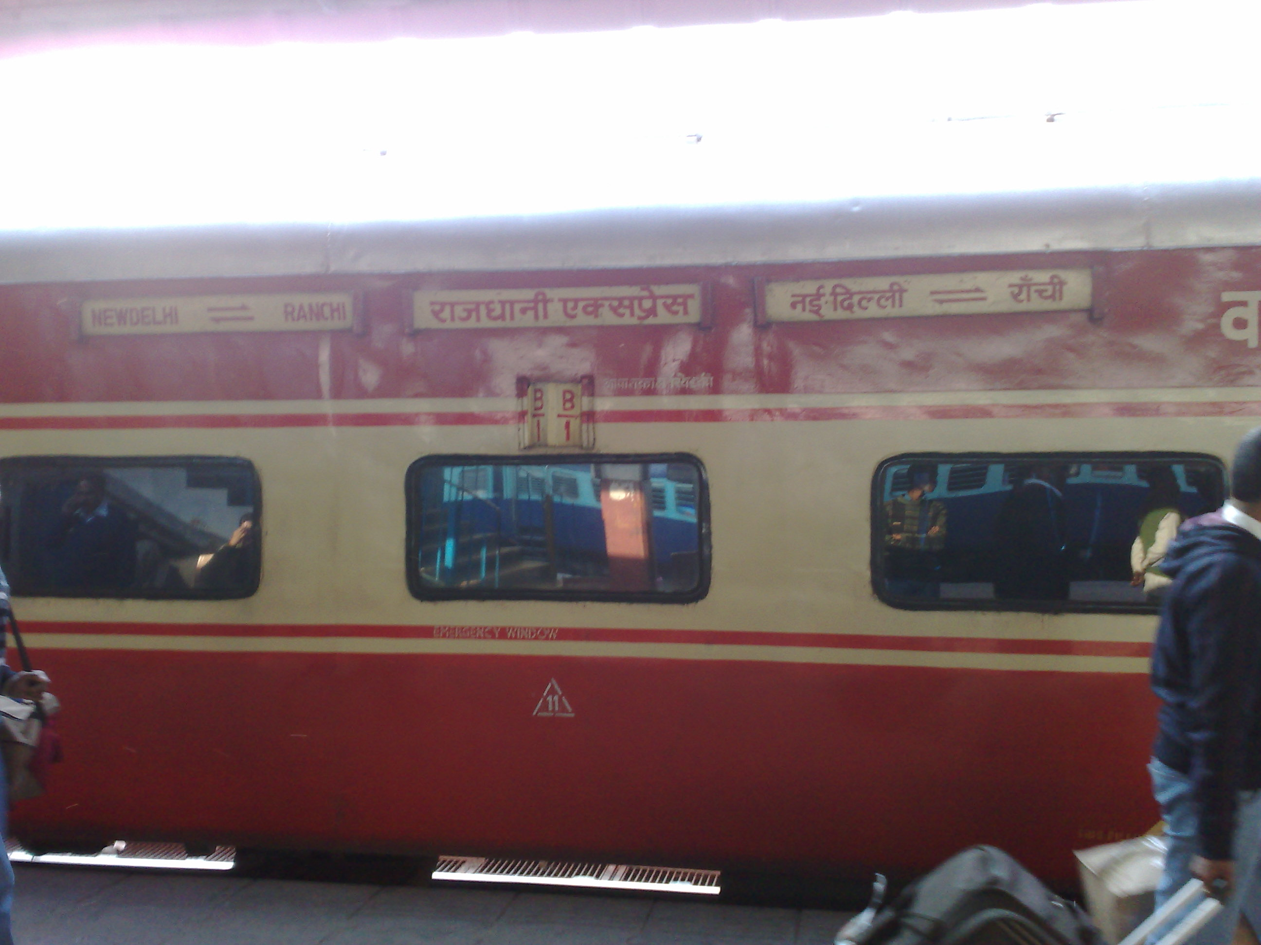 Ranchi Rajdhani Express